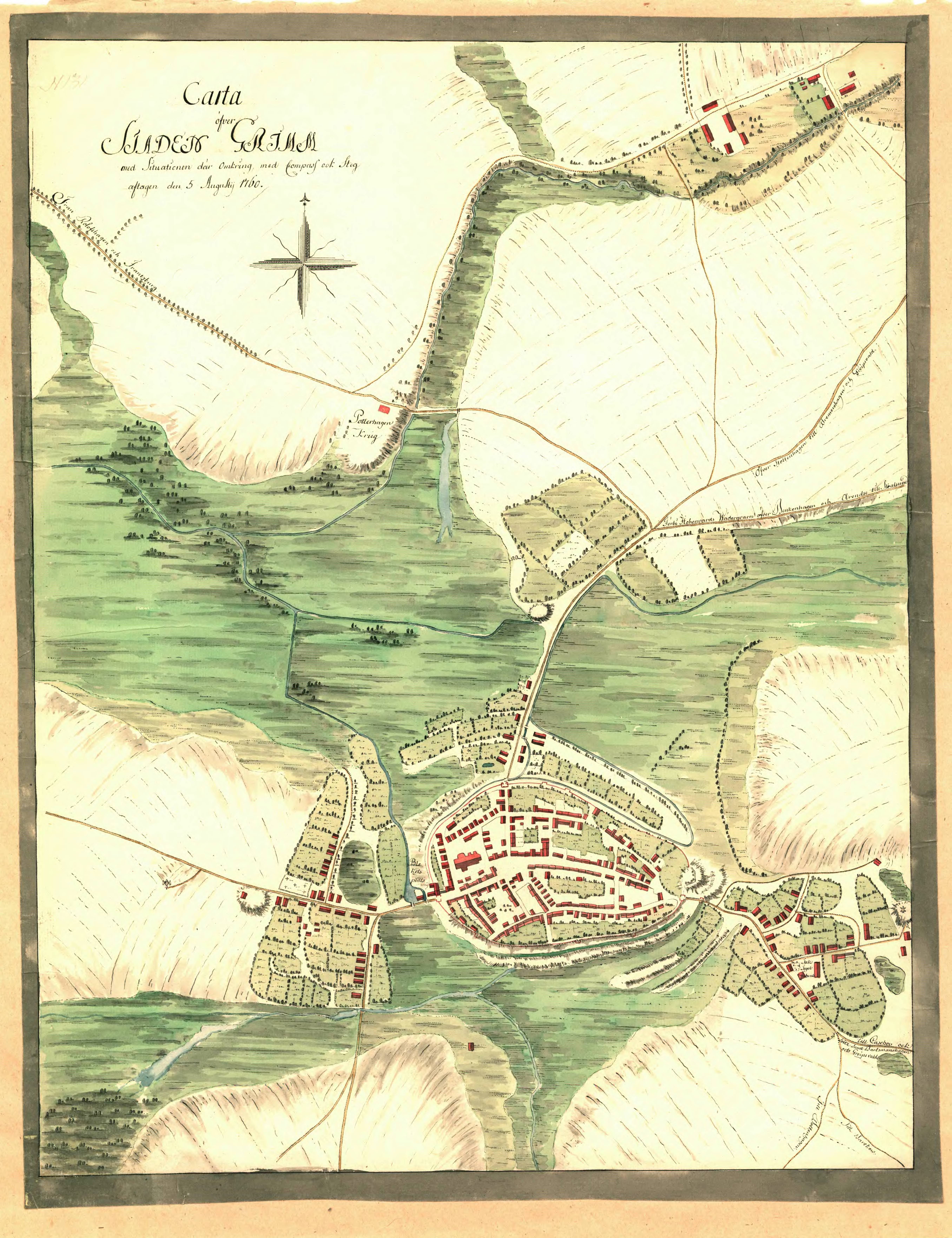 Citymap of Grimmen